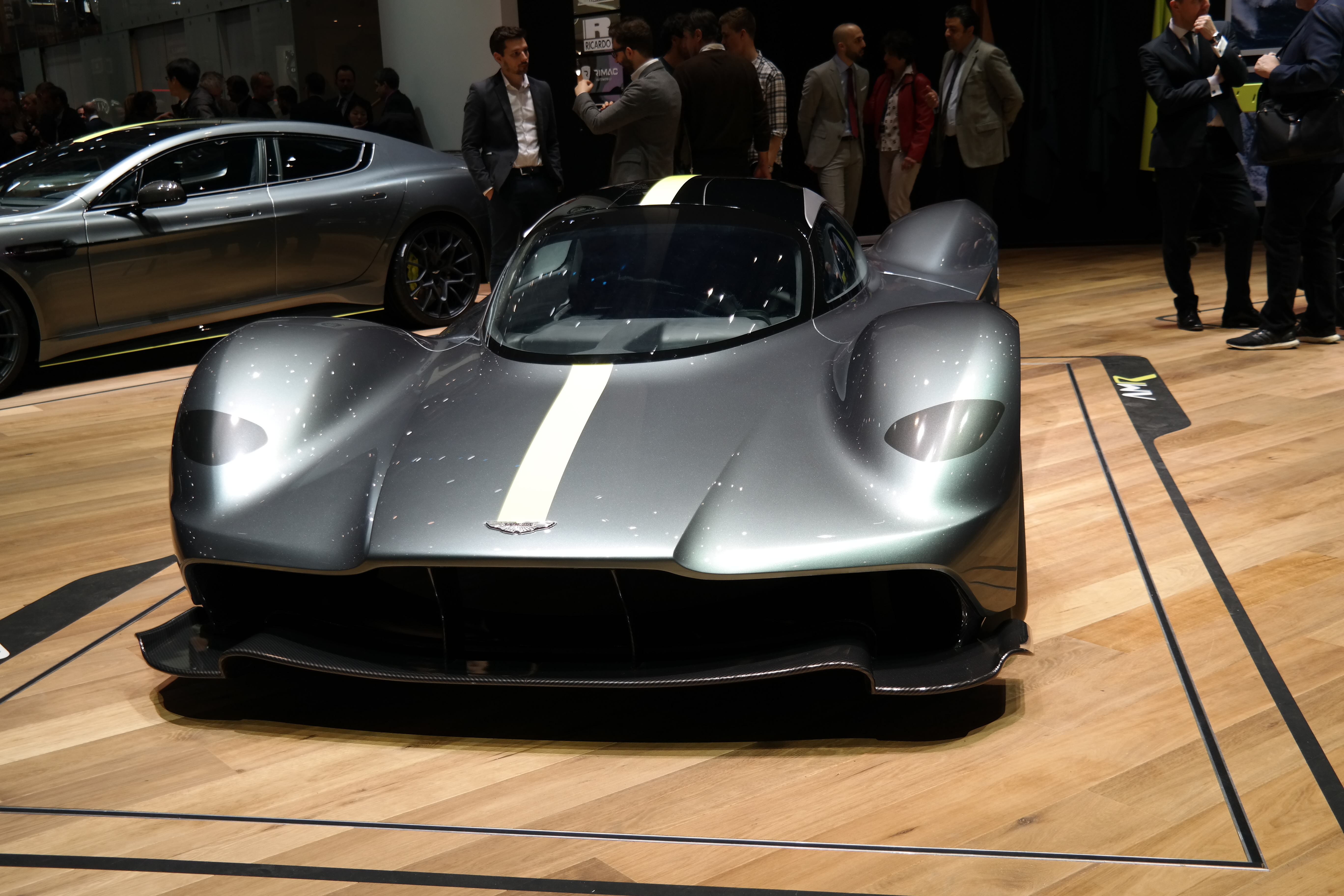 Geneva Motor Show 2017 (photo taken on the first press day)